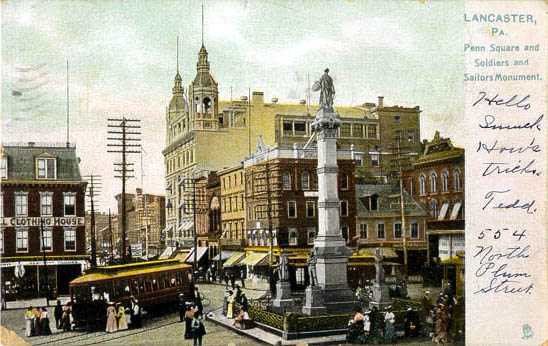 1906 postcard showing Penn Square with the Soldiers and Sailors Monument, at the corner of King and Queen Streets, looking west down King (later US 30 and the Lincoln Highway)